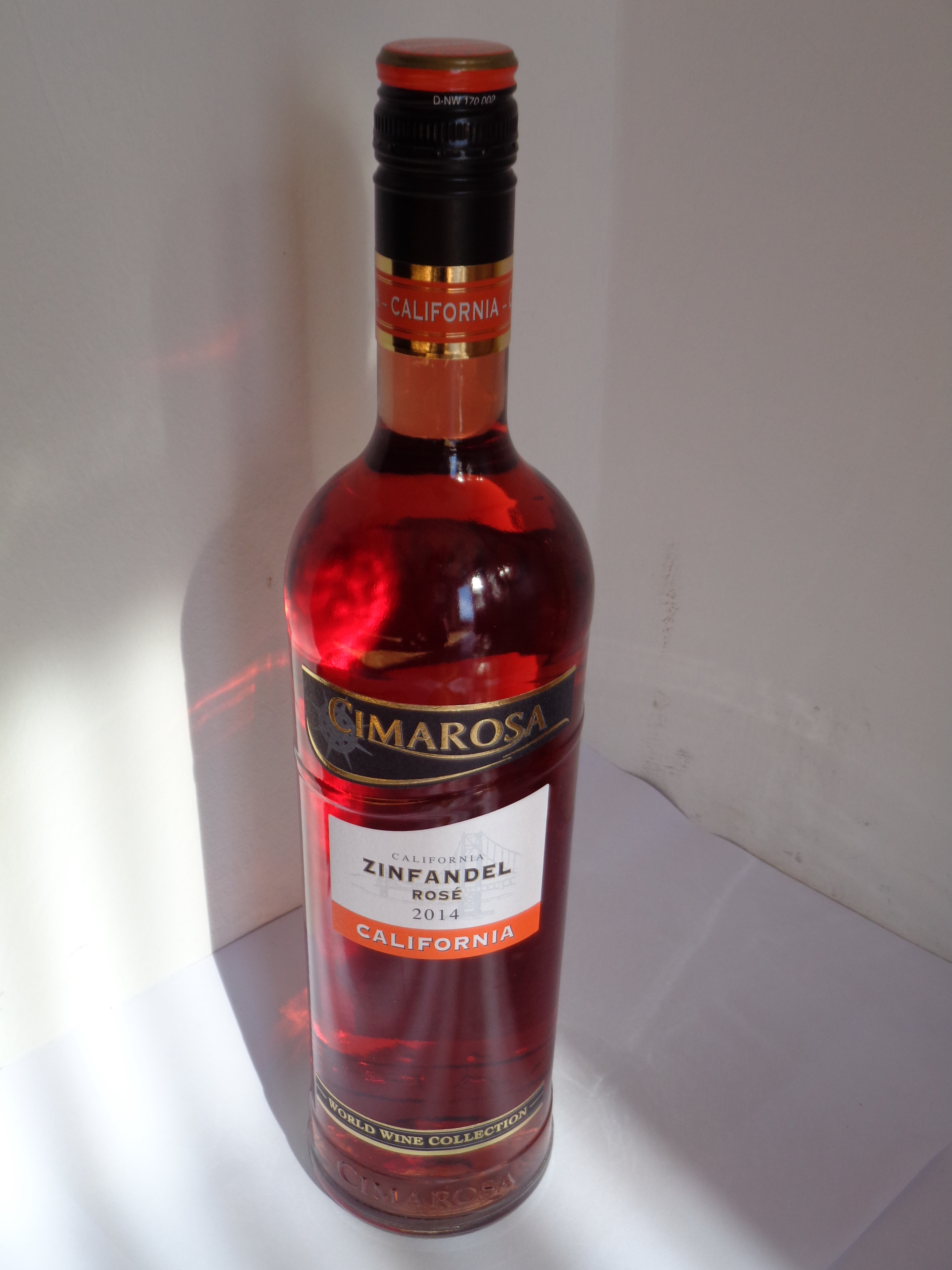 A bottle of Zinfandel wine - rosé - (Croatian: Crljenak), produced in California, USA (2014 vintage)